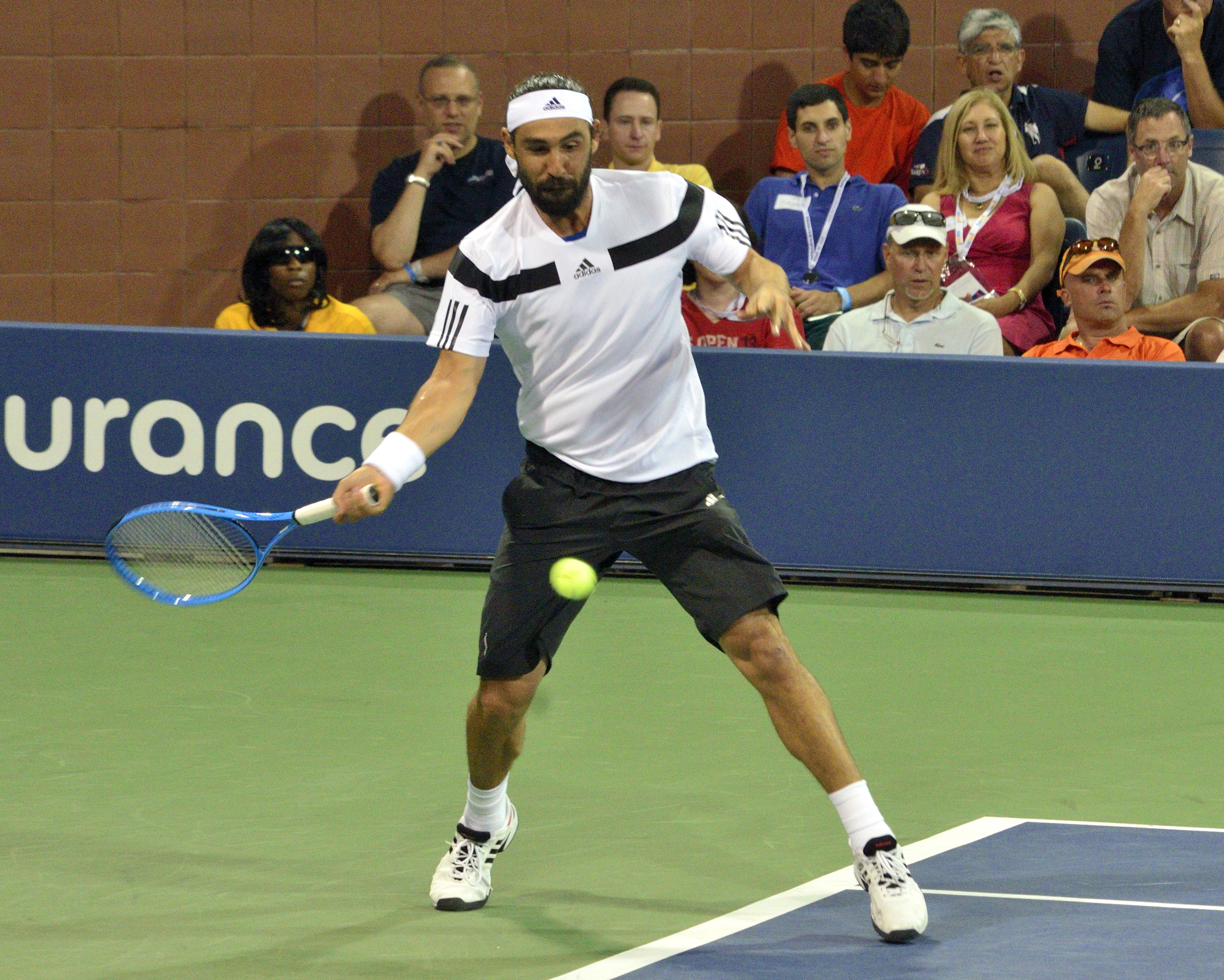 Queens, NY August 30, 2013 Marcos Baghdatis (CYP) def. Kevin Anderson (RSA) Court 17